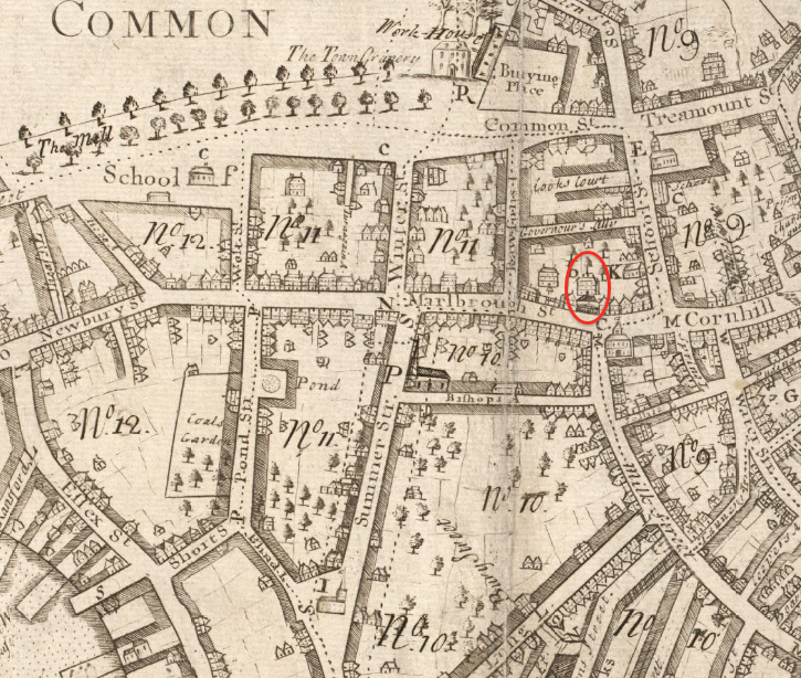 Detail of 1743 map of Boston, Massachusetts, by William Price.